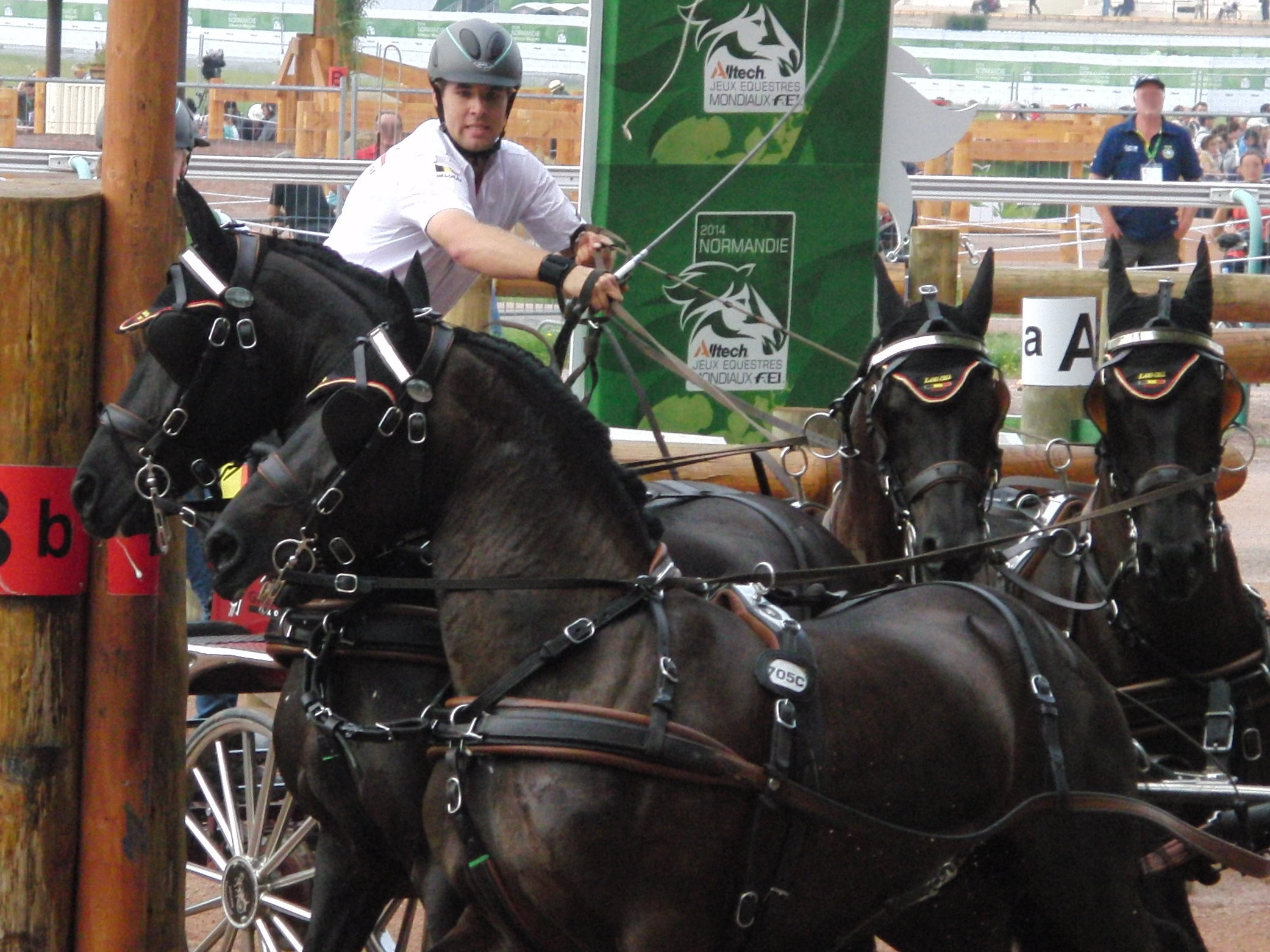 2014 FEI World Equestrian Games - Driving - Marathon - Edouard Simonet and his Arabo-friesian horses for Belgium